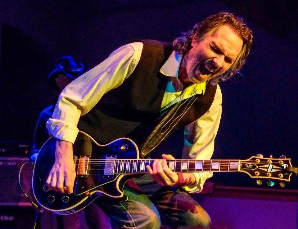 Jim McCarty